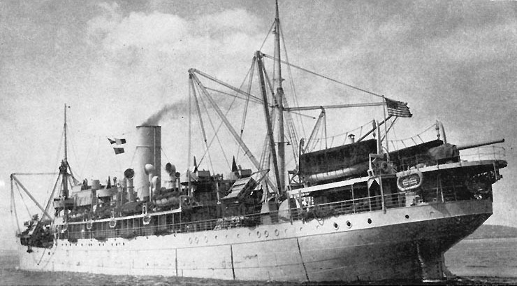 Stern view of troop transport USAT Otsego, ca. 1942-44